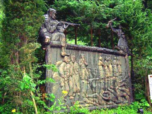 Relief, Heomunsan 회문산 빨치산 사령부 입구의 부조